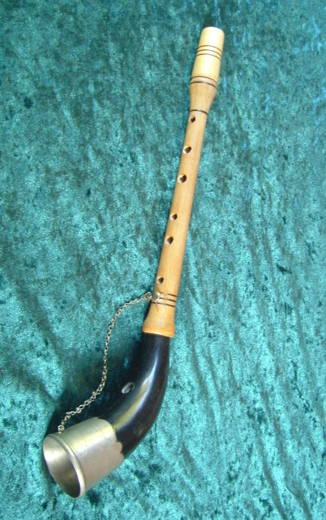 Rizhok, Ukrainian Hornpipe (Windinstrument, single reed), similar to Russian Zhaleyka